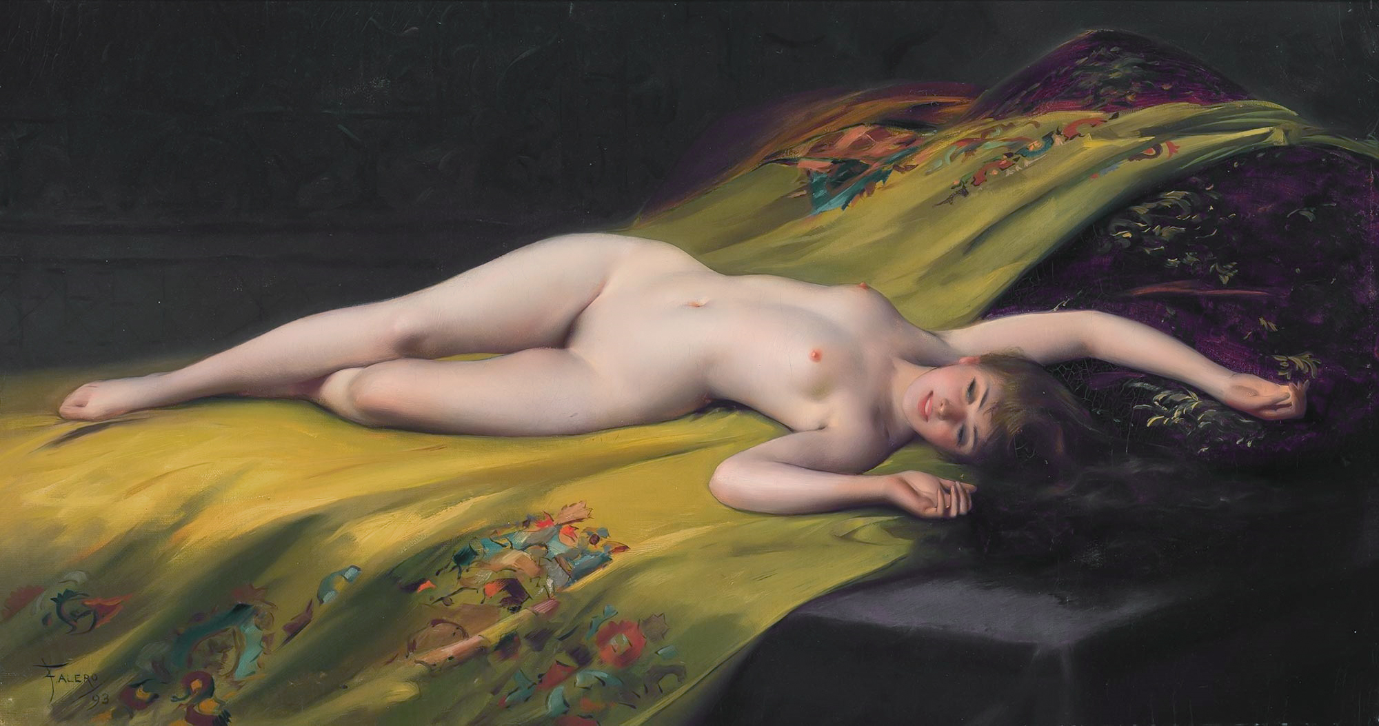 Reclining Nude